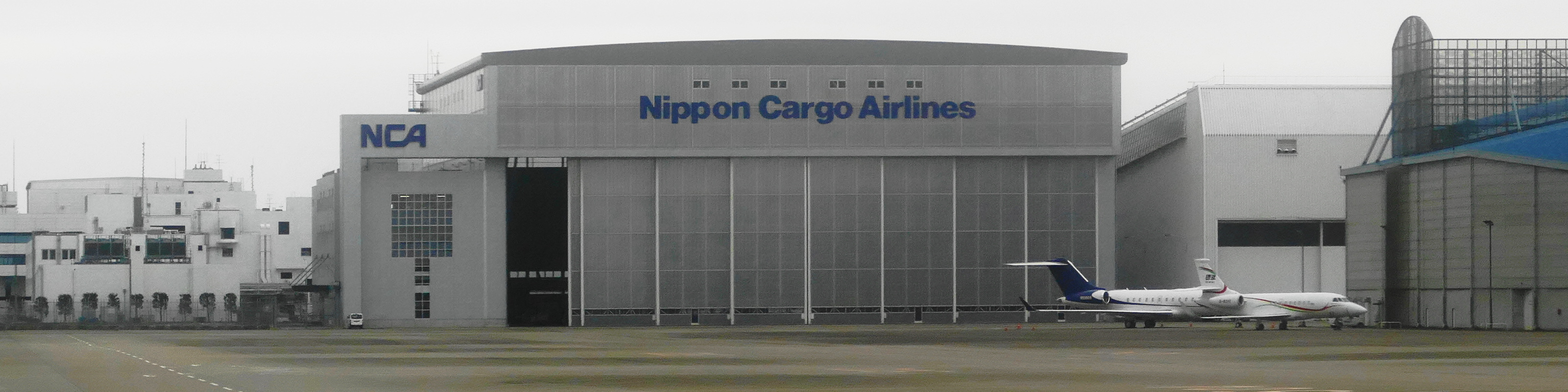 Headquarters of Nippon Carg Airlines(NCA Line Maintenance Hangar ) ,Chiba prefecture,Japan